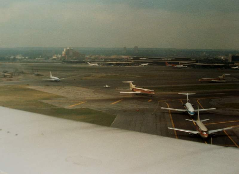 Newark Liberty International Airport in 1986